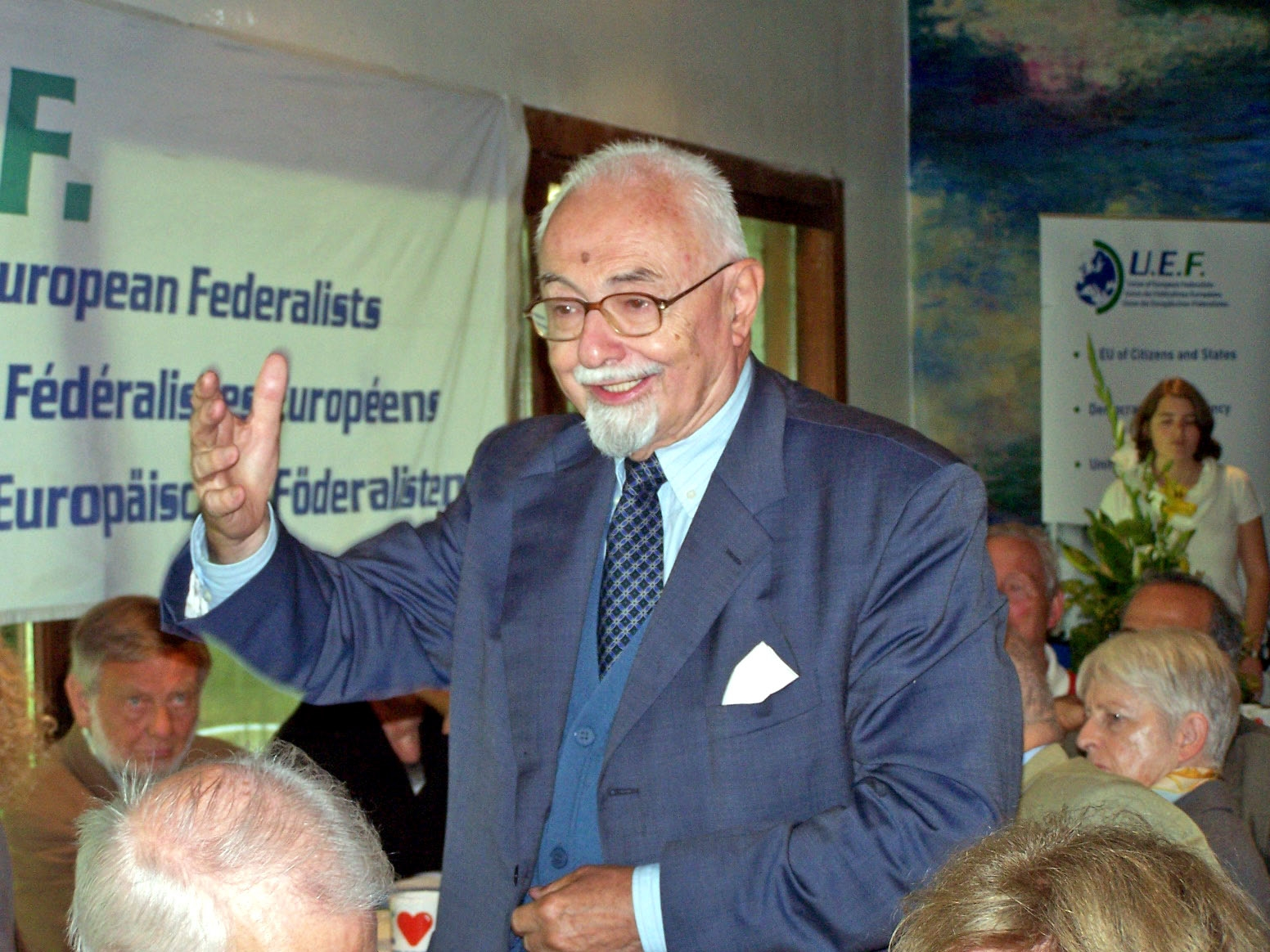 Paolo Clarotti, Member of the UEF for more than 50 years adresses a speech at the Annual Meeting of theUnion of European Federalists on 25 Sep 2010